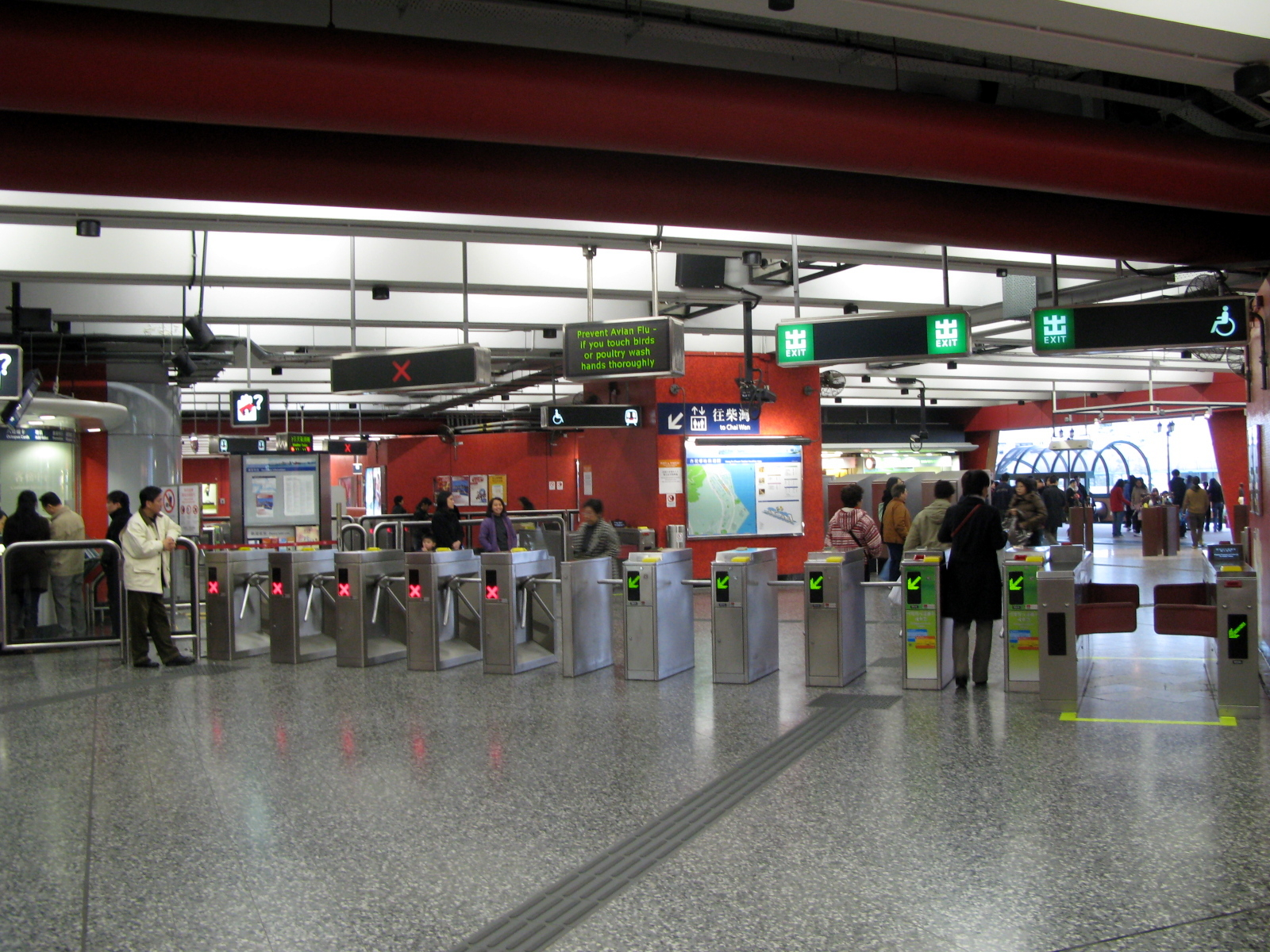 MTR Heng Fa Chuen station concourse